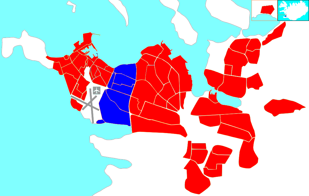 Locator map of the district Hlíðar (blue) within the municipality of Reykjavik (red).